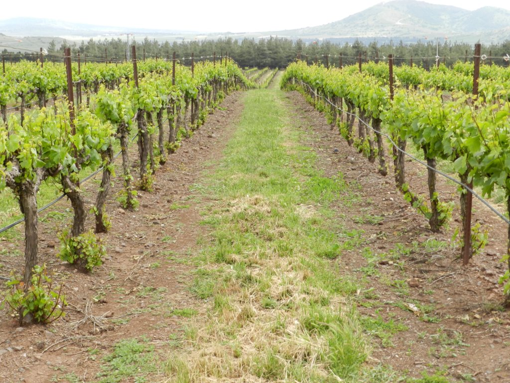 Organic Vineyard in the Golan Heights, Agriculture in Israel